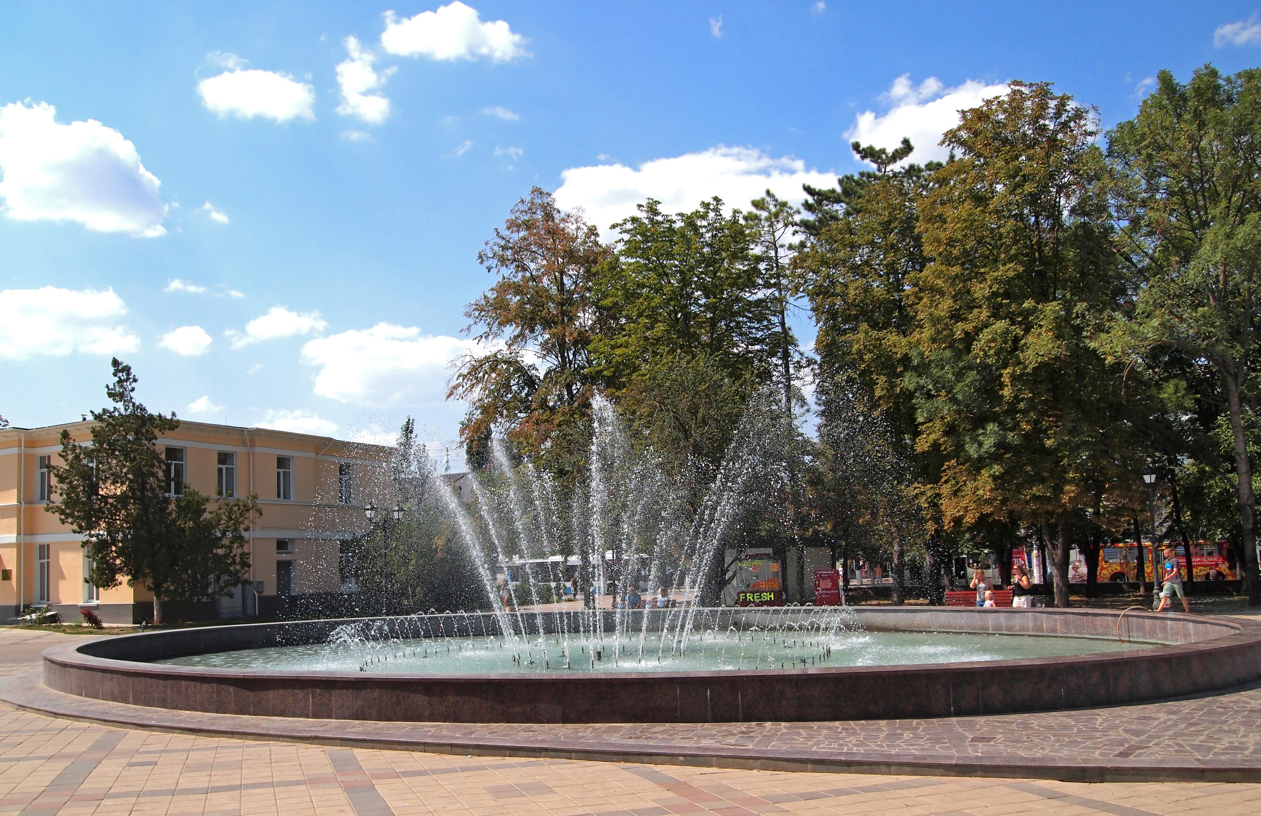 Fountain in Simferopol. This photograph was taken with an Olympus E-PL1.